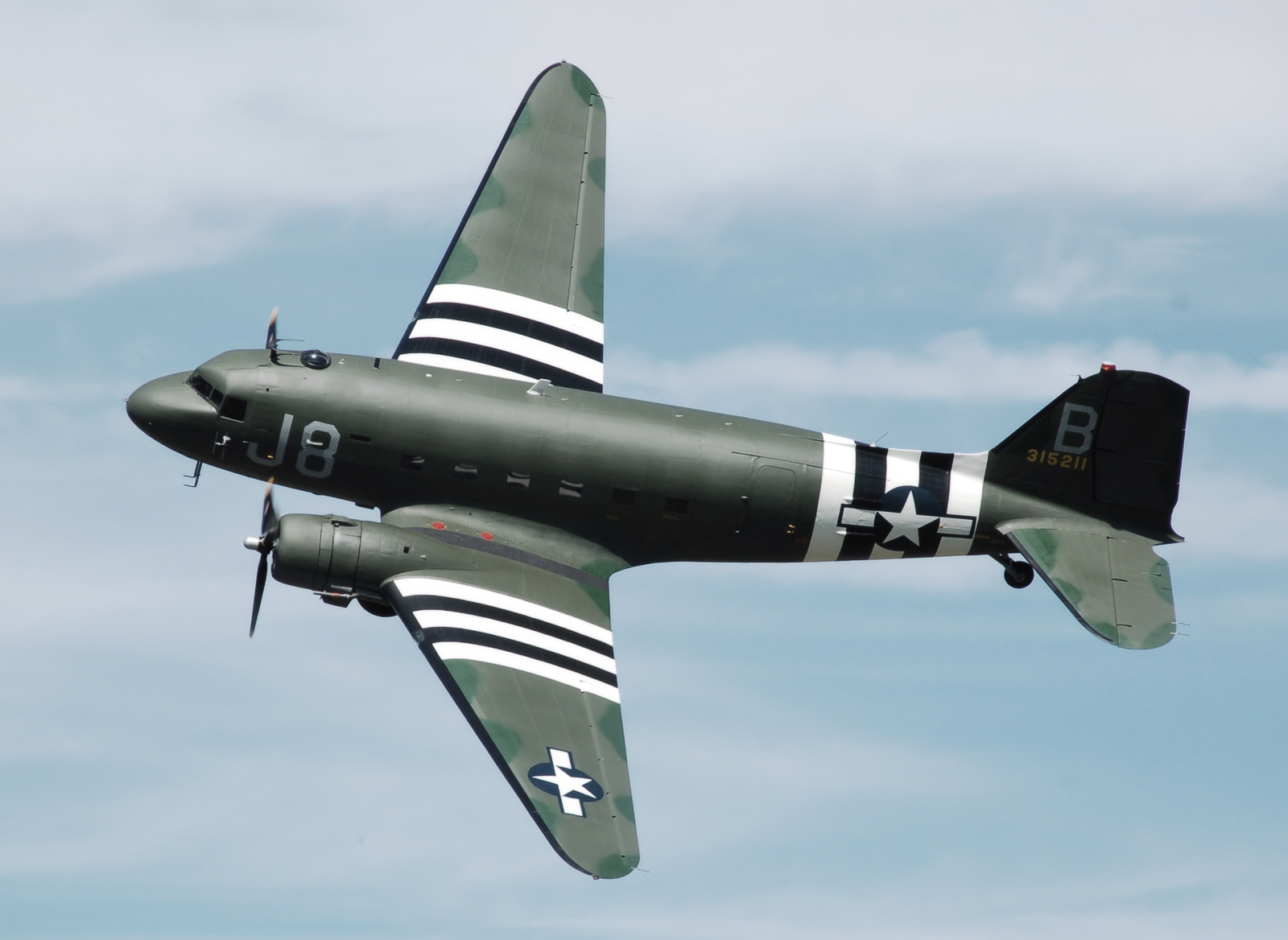 An ex-United States Air Force C-47A Skytrain (civil registration N1944A), previously belonging to Wings Venture, displays at the Cotswold Air Show at Cotswold Airport, Kemble, Gloucestershire, England. This aircraft currently resides at Fantasy of Flight in Polk City, FL The military registration was 315211/B/J8, construction number 19677. It carries USAF markings, and black and white invasion stripes. It operated from Upottery in Devon, England, for the invasion of Normandy, France, during WWII.